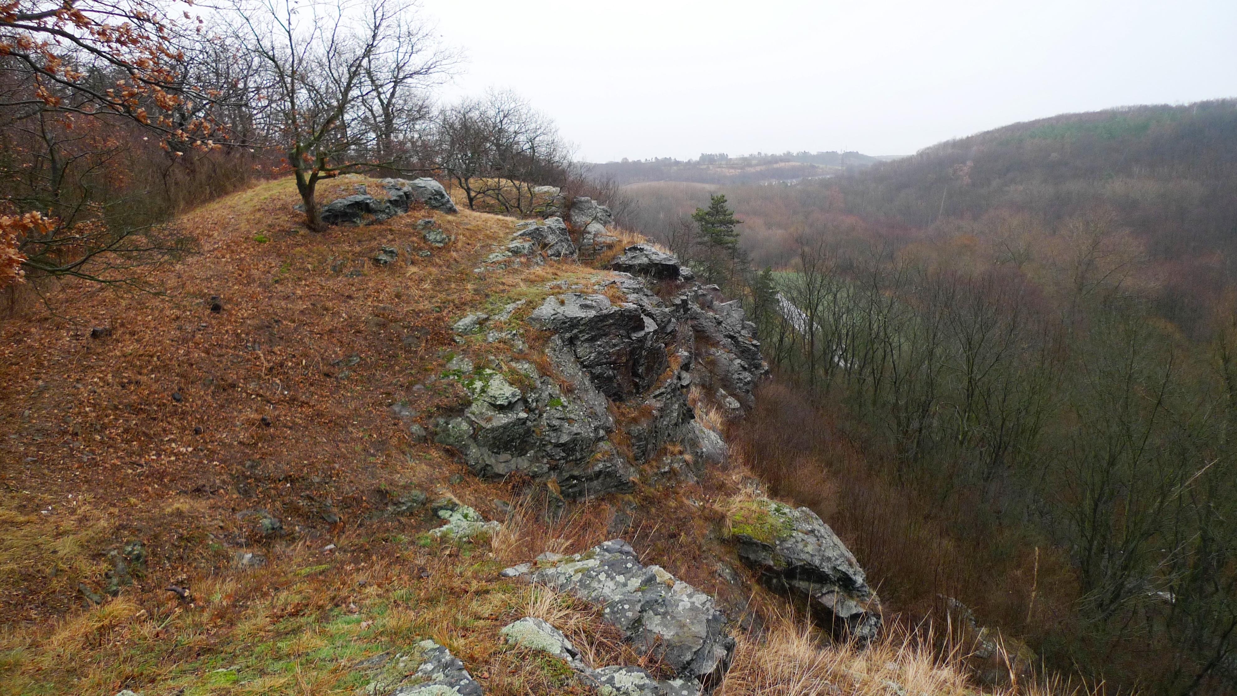 Natural monument Minická skála in Kralupy nad Vltavou, Mělník District. Česky: Přírodní památka Minická skála v Kralupech nad Vltavou v okrese Mělník. Pohled na východ, dole je vidět silnice II/101